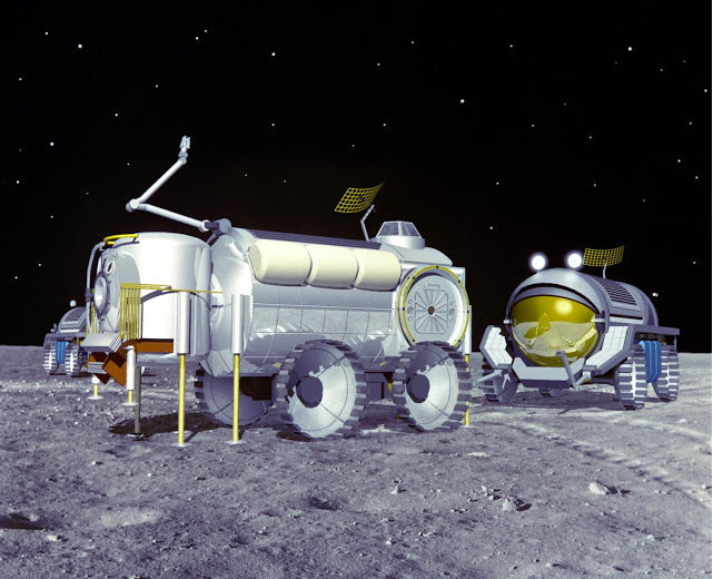 An Energia-launched cargo lander would deliver the U.S.-built airlock/rover support node to the outpost site and lower it to the lunar surface. Astronauts in the pressurized moon bus rovers would drive it to a flat area using teleoperations techniques, then would use robot arms on their rovers to lower stilt-like supports. These would level and raise the airlock/node. After the airlock/node's wheels became raised off the ground, they would be removed, clearing the way for the twin rovers to "dock" with the node's two round side ports (one port is visible below the observation cupola just right of center). Image credit: NASA